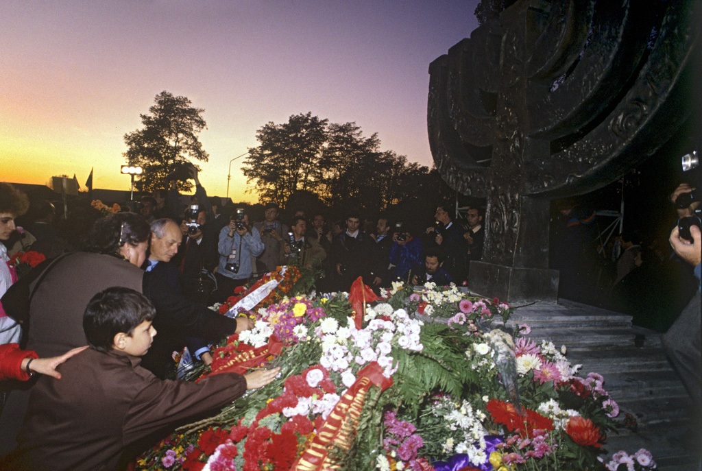 “Wreath-laying ceremony in Babi Yar”. As part of the week of Babi Yar tragedy commemoration (29 September - 6 October) wreaths were laid to the menorah.